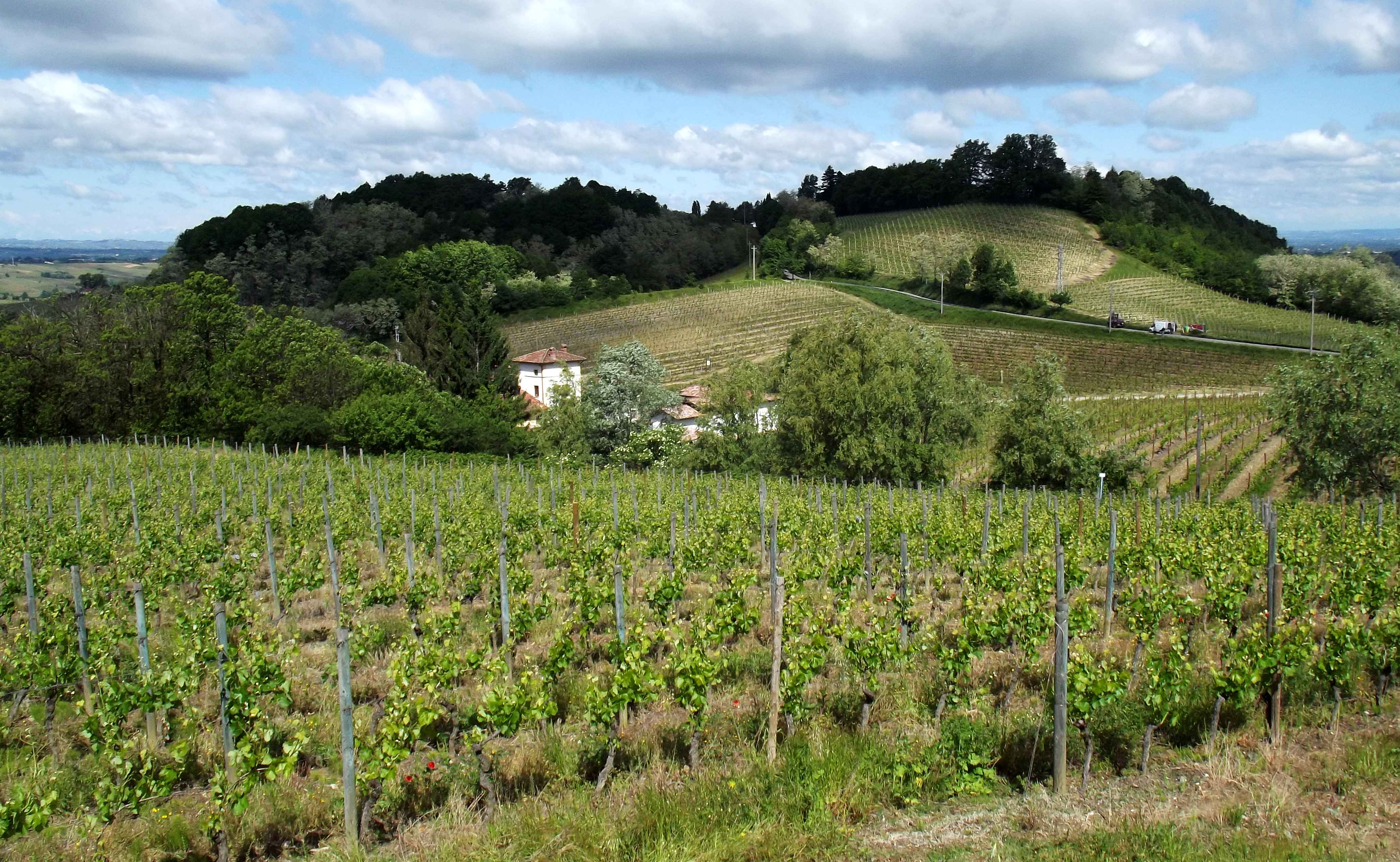 Gavi (AL): wineyards